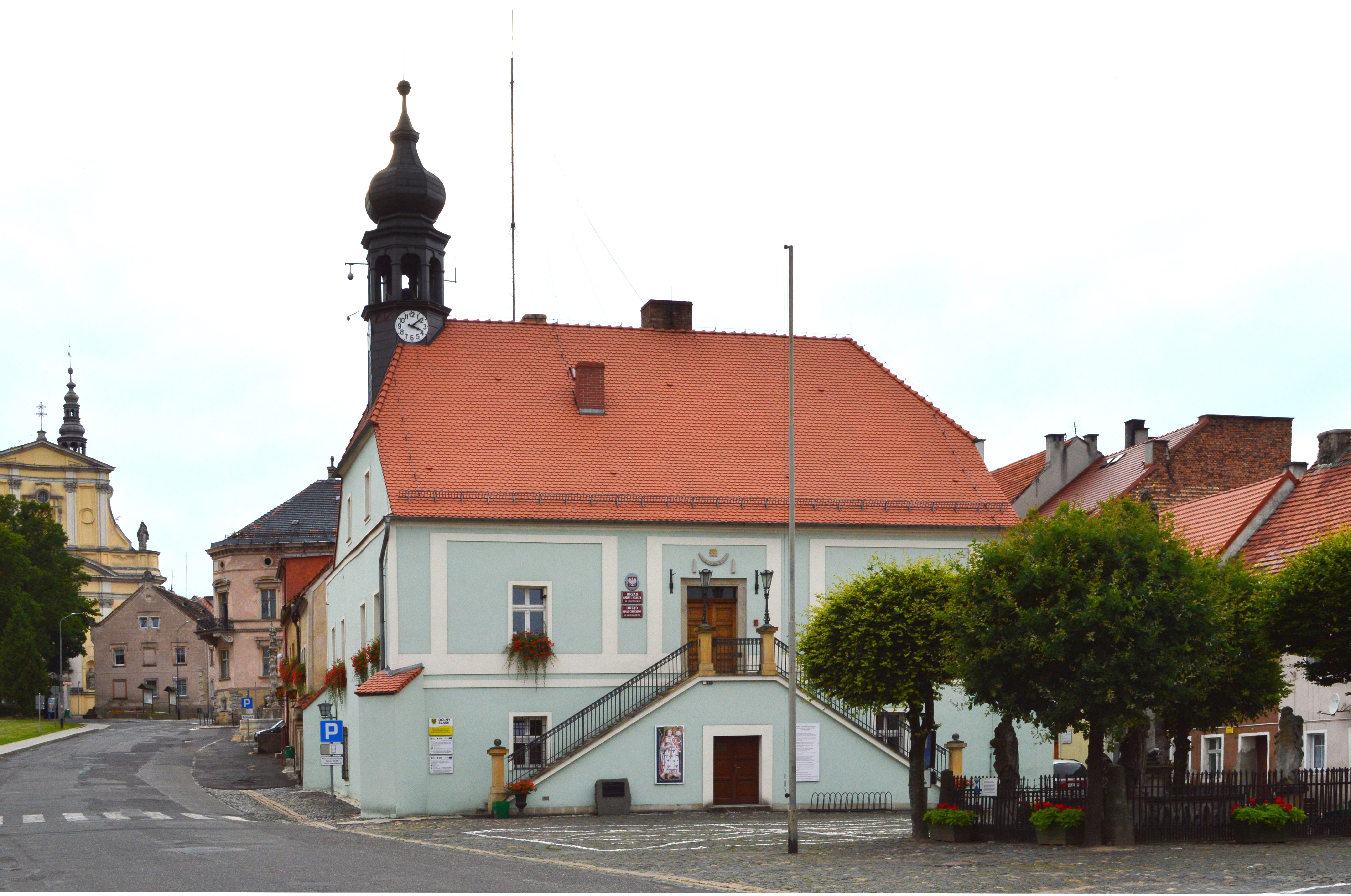 Lubomierz is a town in Lwówek Śląski County, Lower Silesian Region, in south-western Poland. It is the seat of the administrative district (gmina) called Gmina Lubomierz. It lies over one hundred kilometres west of the regional capital Wrocław. The Scotch Mist Gallery contains many photographs of historic buildings, monuments and memorials of Poland.